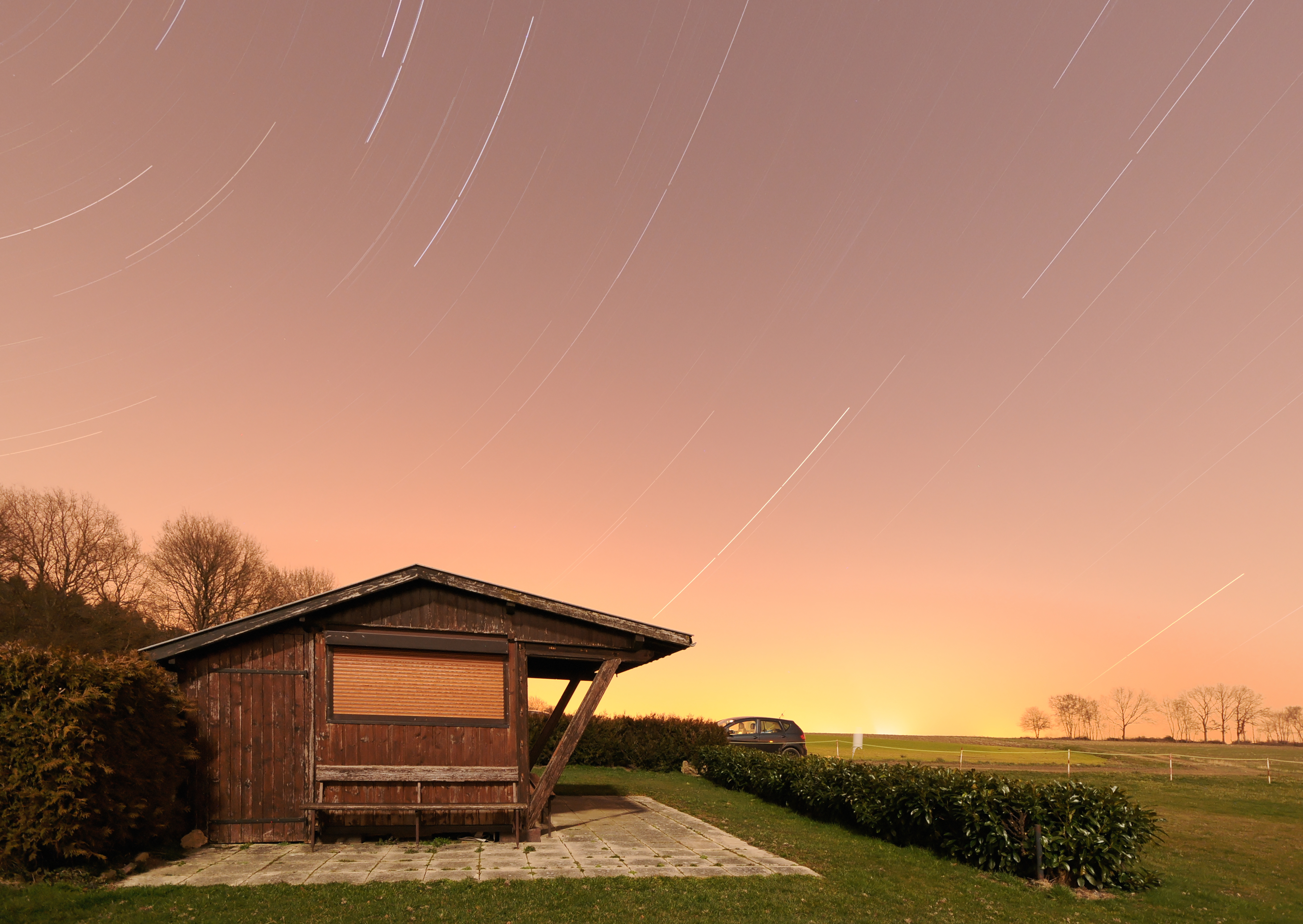 This JPG graphic was created with GIMP. Paysage à Petit-Croix (3 photos prises au clair de Lune).